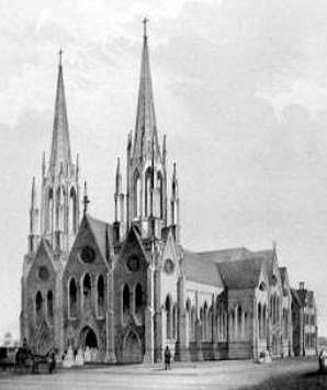 Calvary Church of the Calvary-St. George's Parish